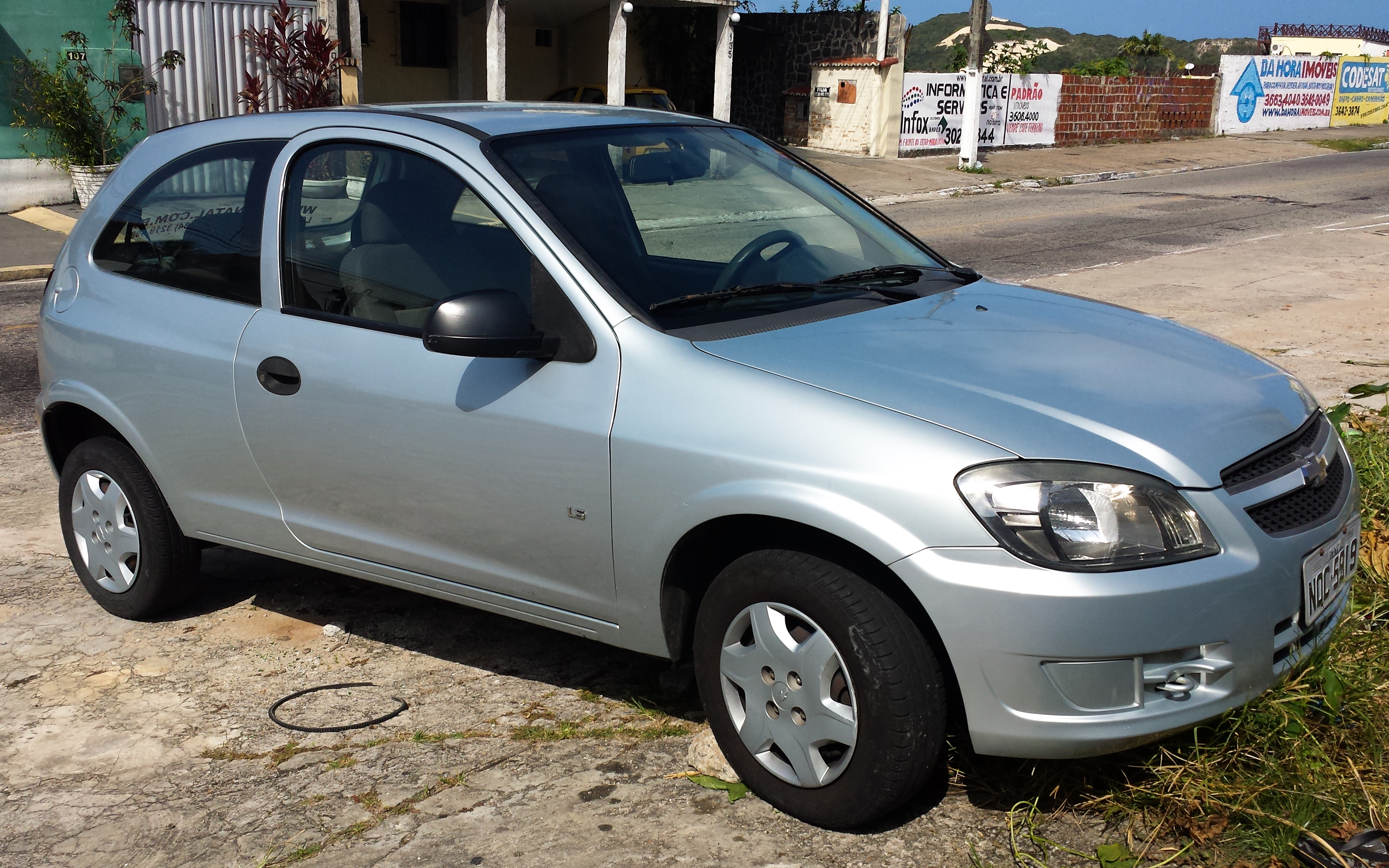 Chevrolet Celta three door hatchback